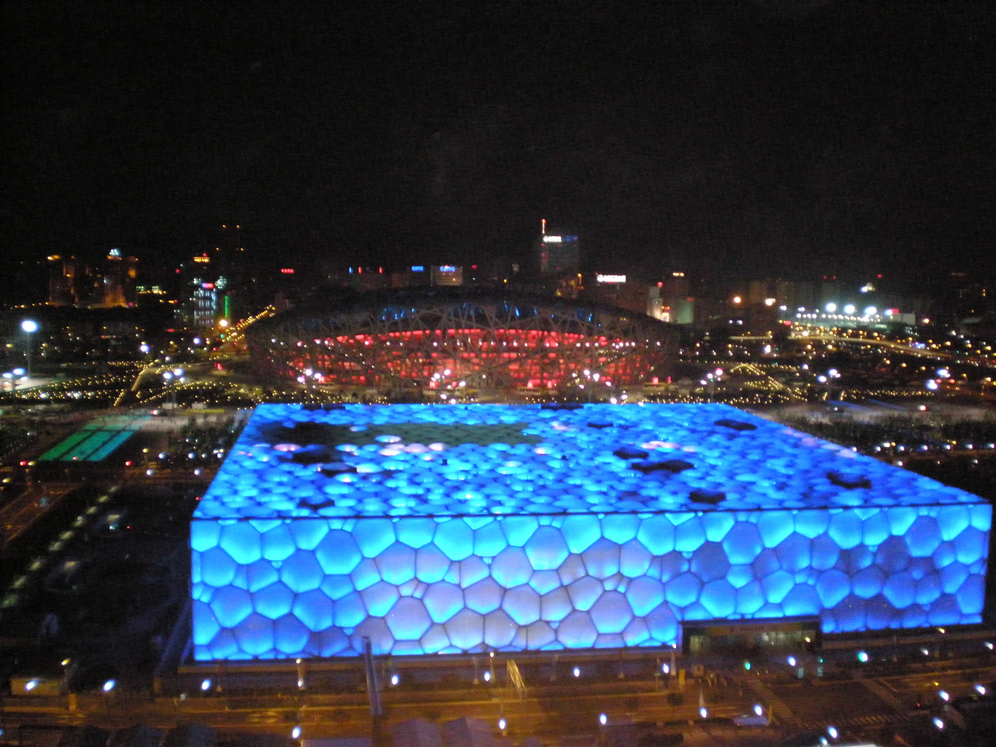 An image of the Beijing National Aquatics Center or "Water Cube", bottom center, and the Beijing National Stadium or "Bird's Nest", in the background at top; from the sky lounge of the 7-star hotel across from the main stadium campus